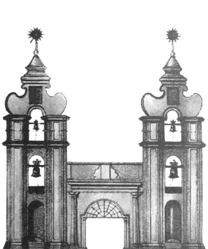 Brama Klaštaru daminikanaǔ, Miensk